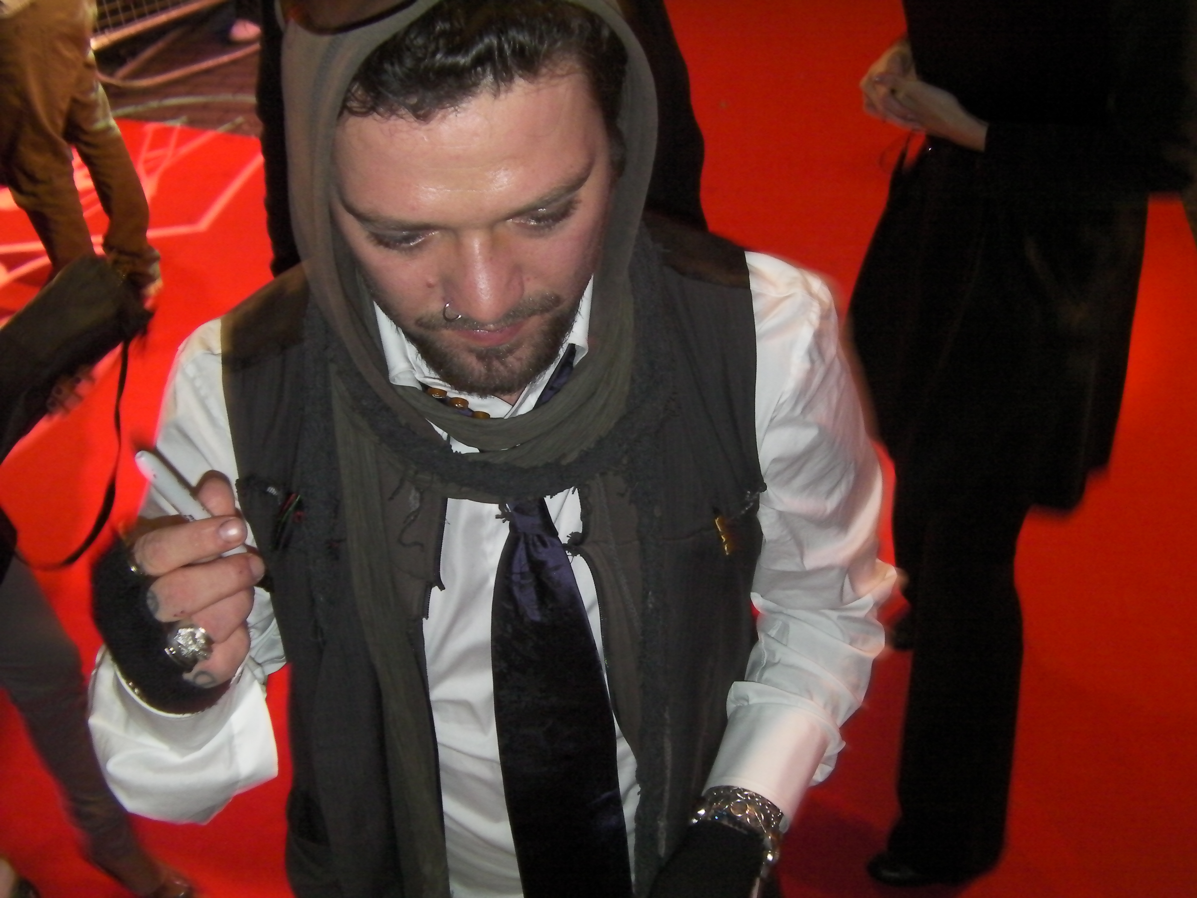 Bam Margera at Jackass 3D London Premiere 2nd November 2010.